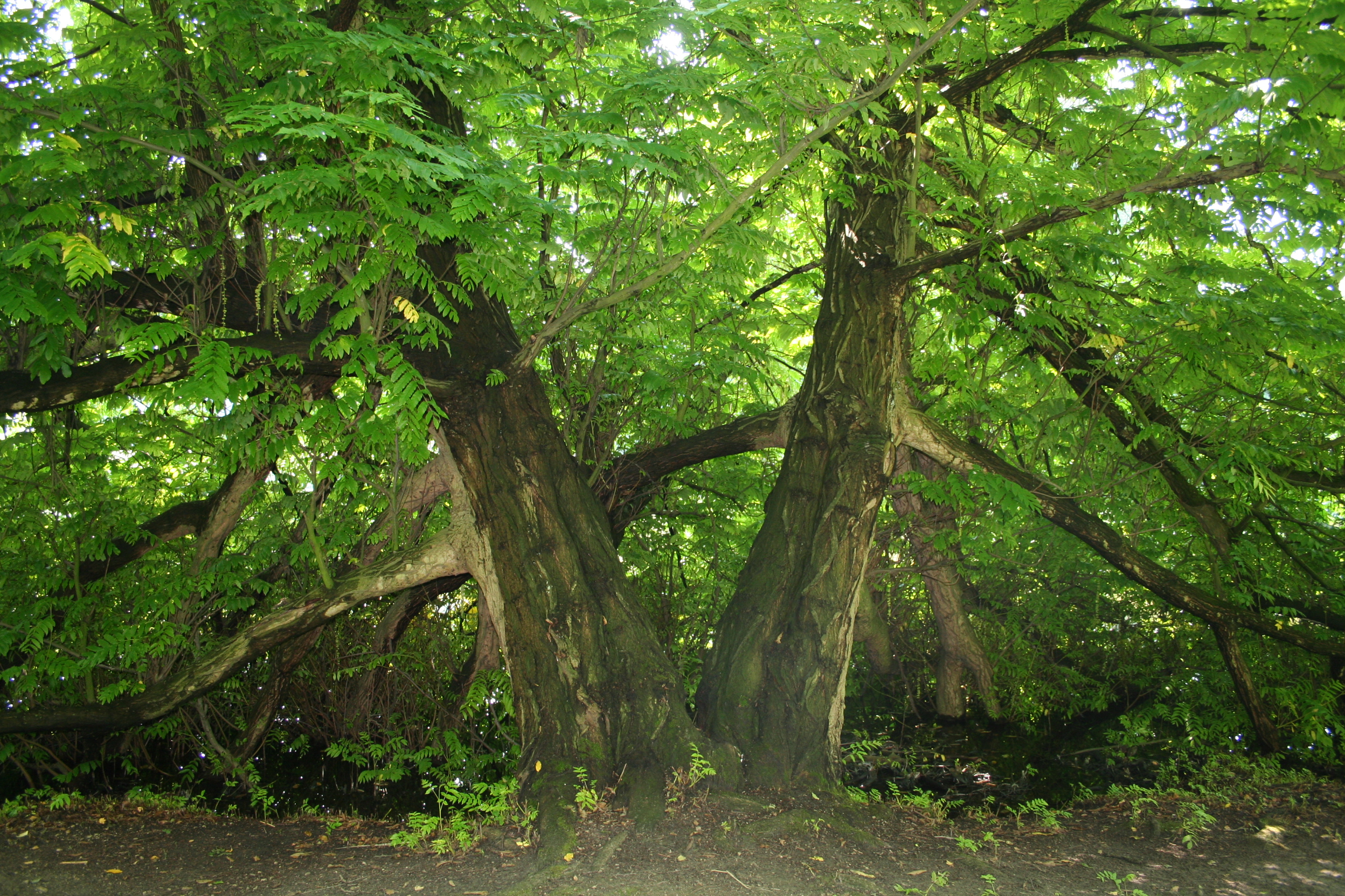 Caucasian Wing-Nut seeds